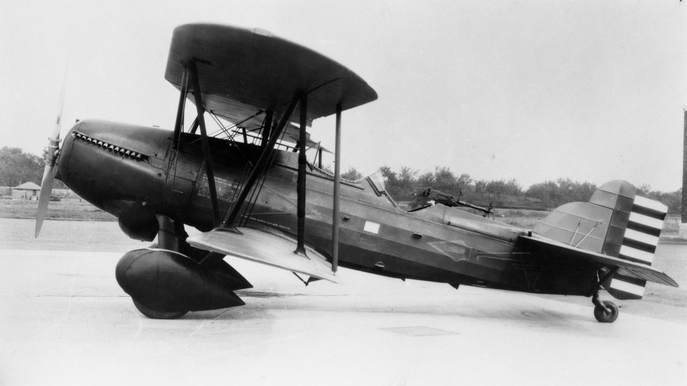 PictionID:40972620 - Title:Falcon Curtiss XO-39 32-211 - Catalog:15_002754 - Filename:15_002754.tif - Image from the Charles Daniels Photo Collection album "US Army Aircraft."----PLEASE TAG this image with any information you know about it, so that we can permanently store this data with the original image file in our Digital Asset Management System.----SOURCE INSTITUTION: San Diego Air and Space Museum Archive